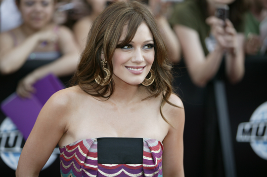 Hilary Duff at the 2007 MuchMusic Video Awards red carpet.